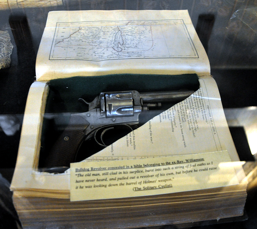 Sherlock Holmes Museum, Baker Street, London Gun in a book, illustrating "The Adventure of the Solitary Cyclist"